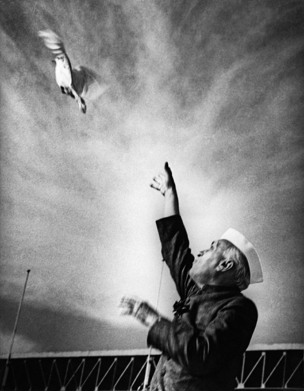 Nehru releasing a dove as a sign of peace at a public function at the National Stadium in New Delhi.